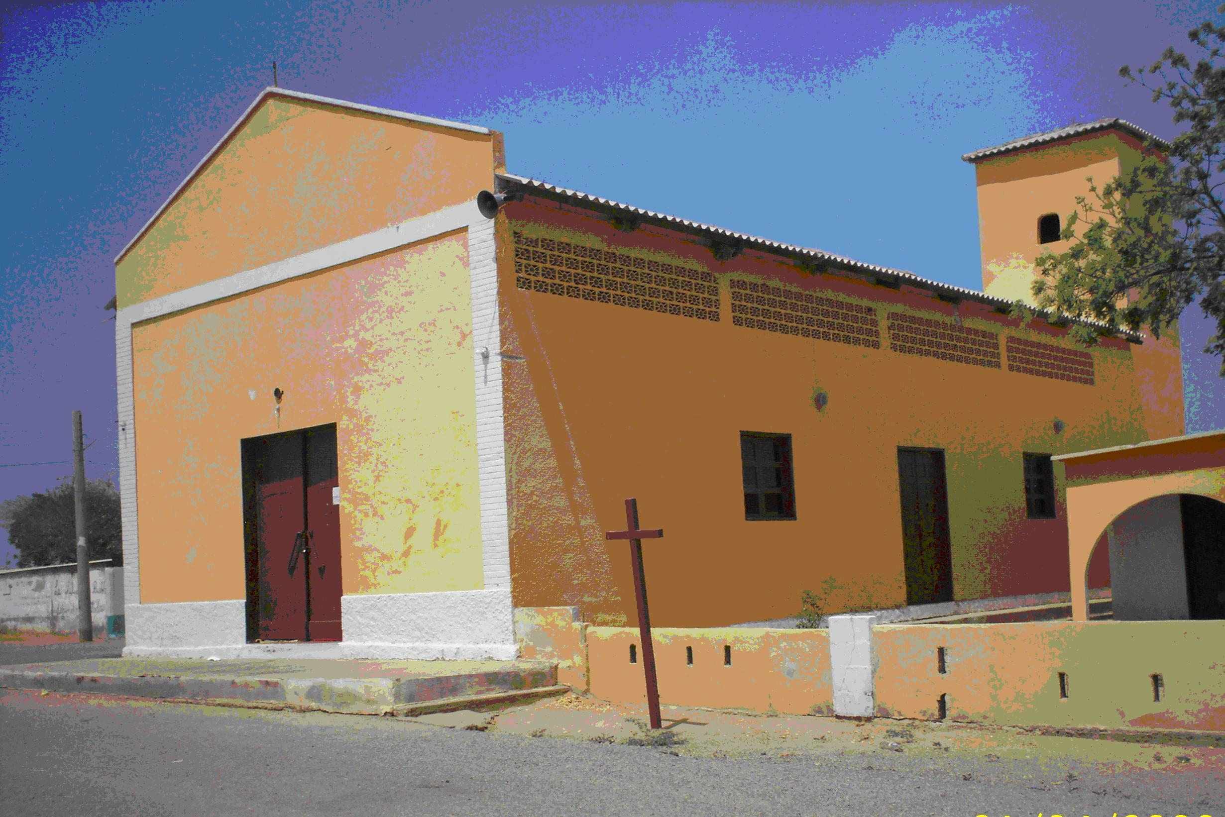 IGLESIA EN ZAZARIDA